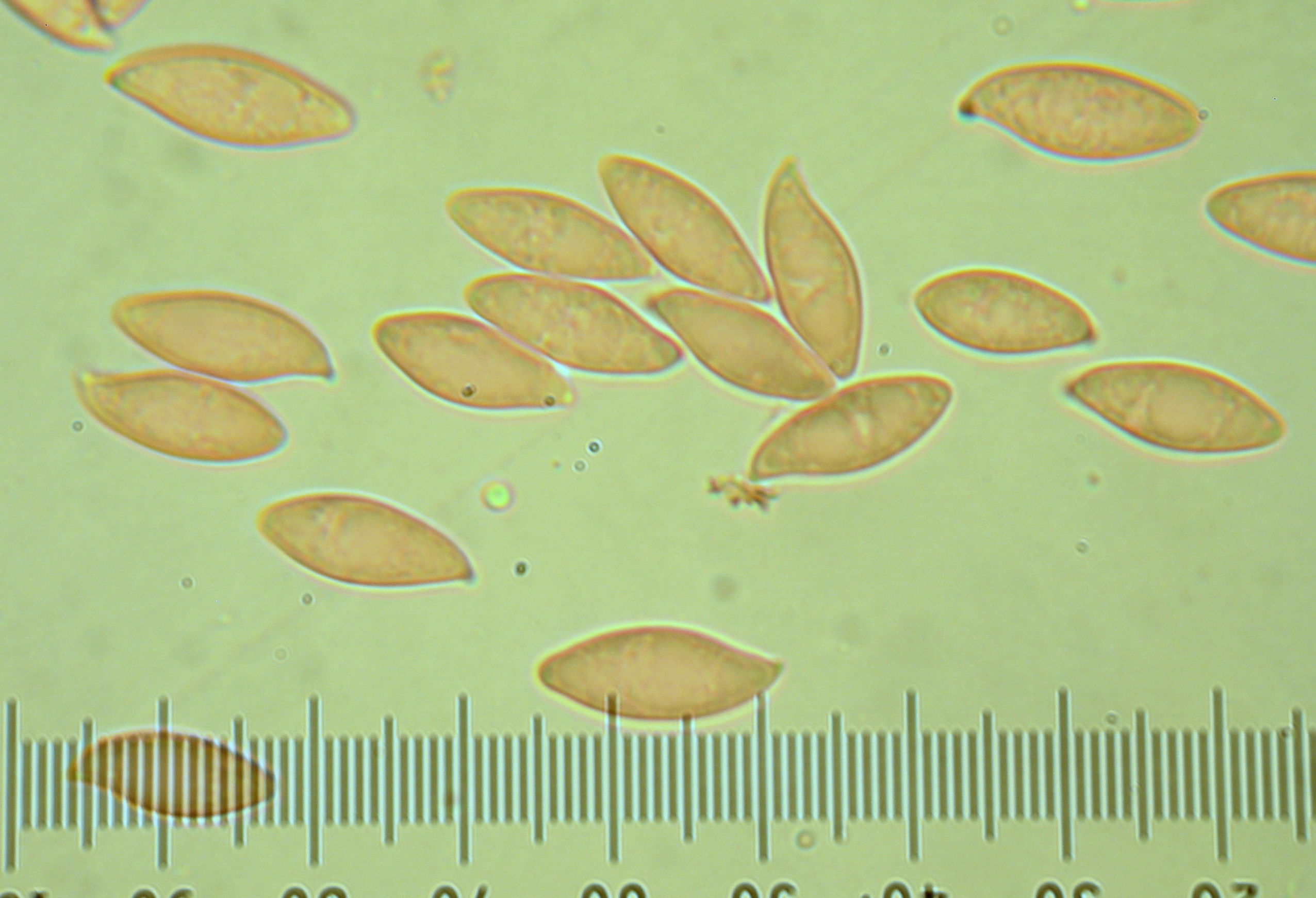 The spores of the bolete fungus Leccinum manzanitae Thiers. 1000x